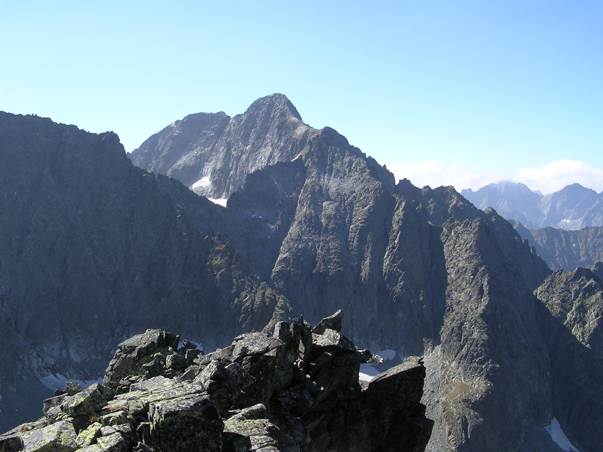 Ľadový štít (seen from Kolový štít)